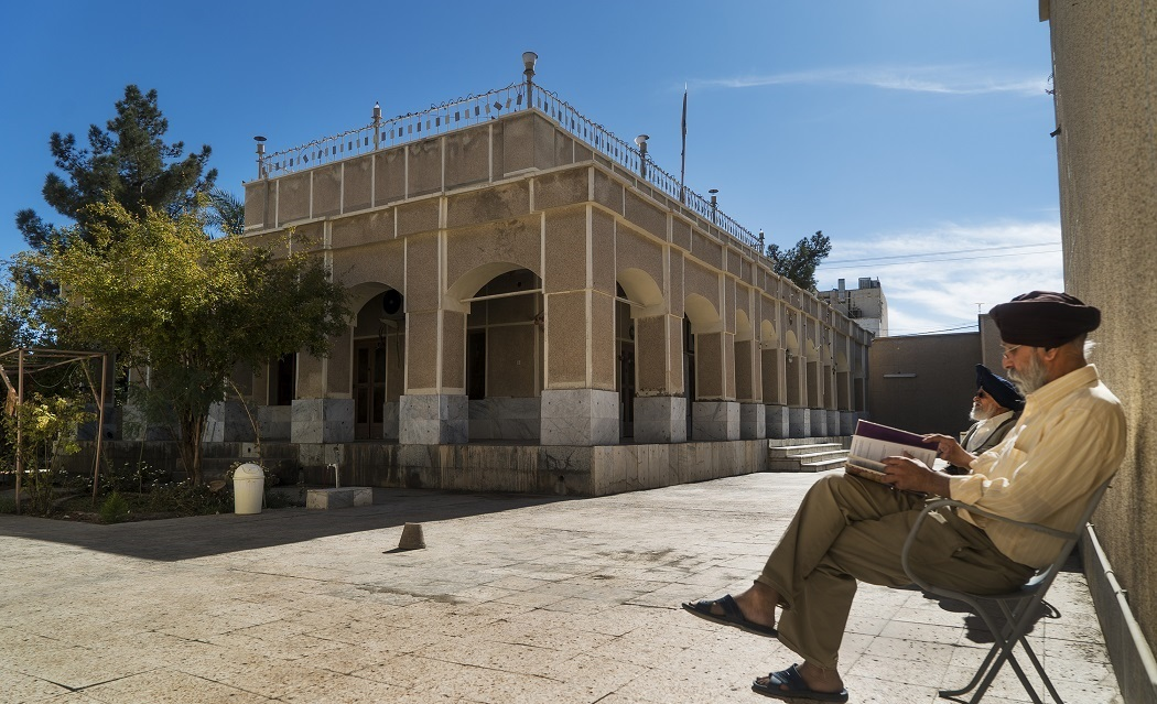 Gurdwara of Zahedan. see full gallery